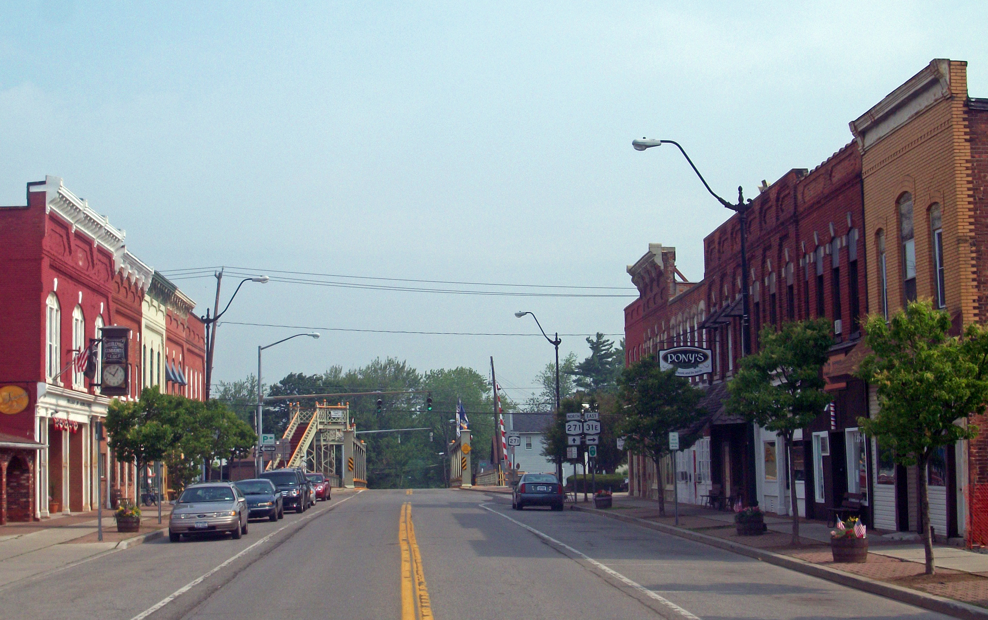 Looking north along NY 271/31E in downtown Middleport, NY, USA. Bridge over Erie Canal is in rear